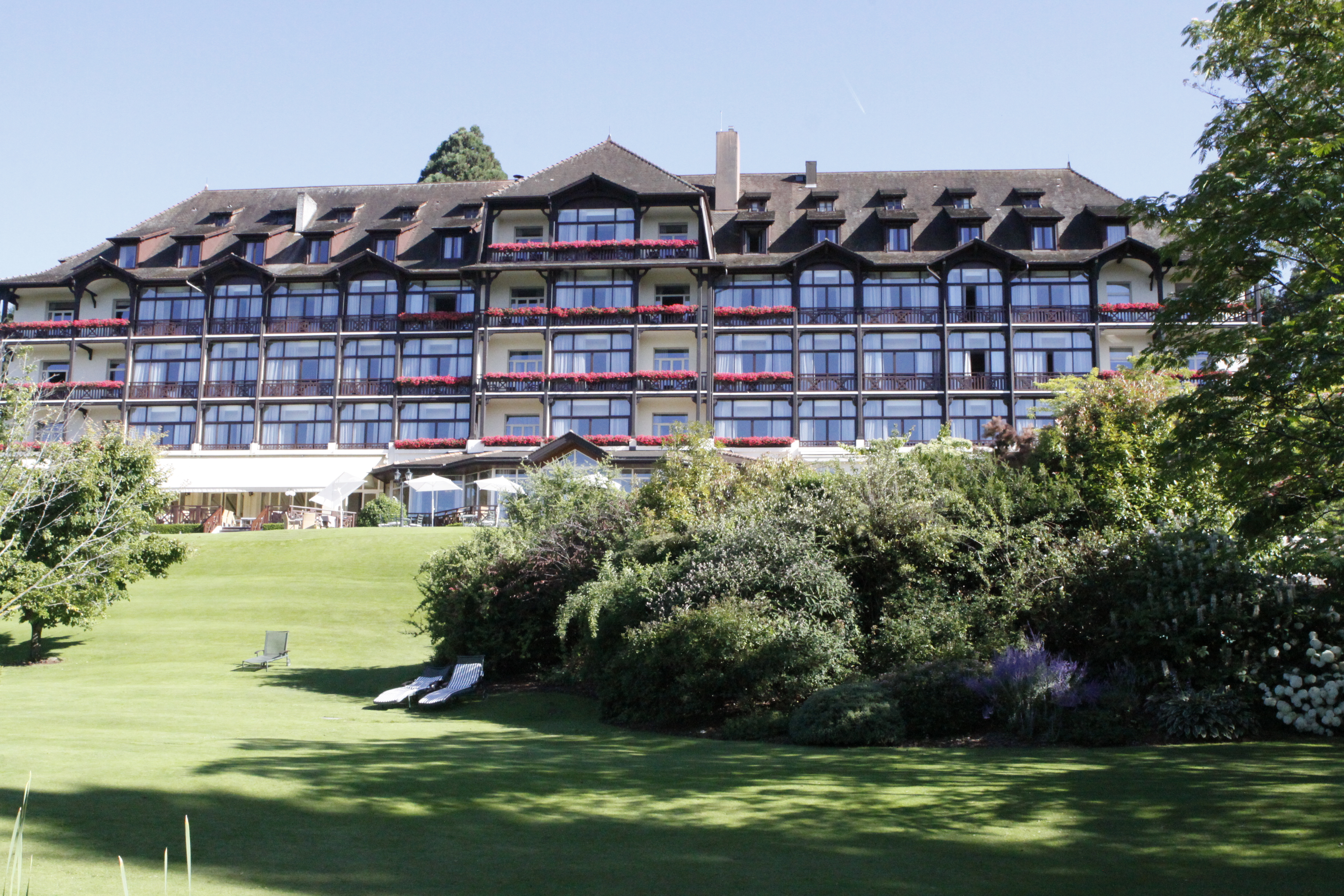 Royal Evian Hotel